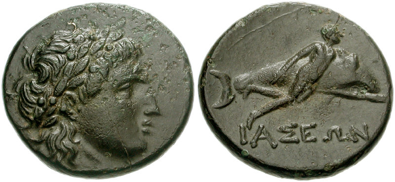 CARIA, Iasos. Circa 250-190 BC. Æ 20mm (6.61 g, 5h). Laureate head of Apollo right / Hermias swimming with dolphin right. ΙΑΣΕΩΝ writing.